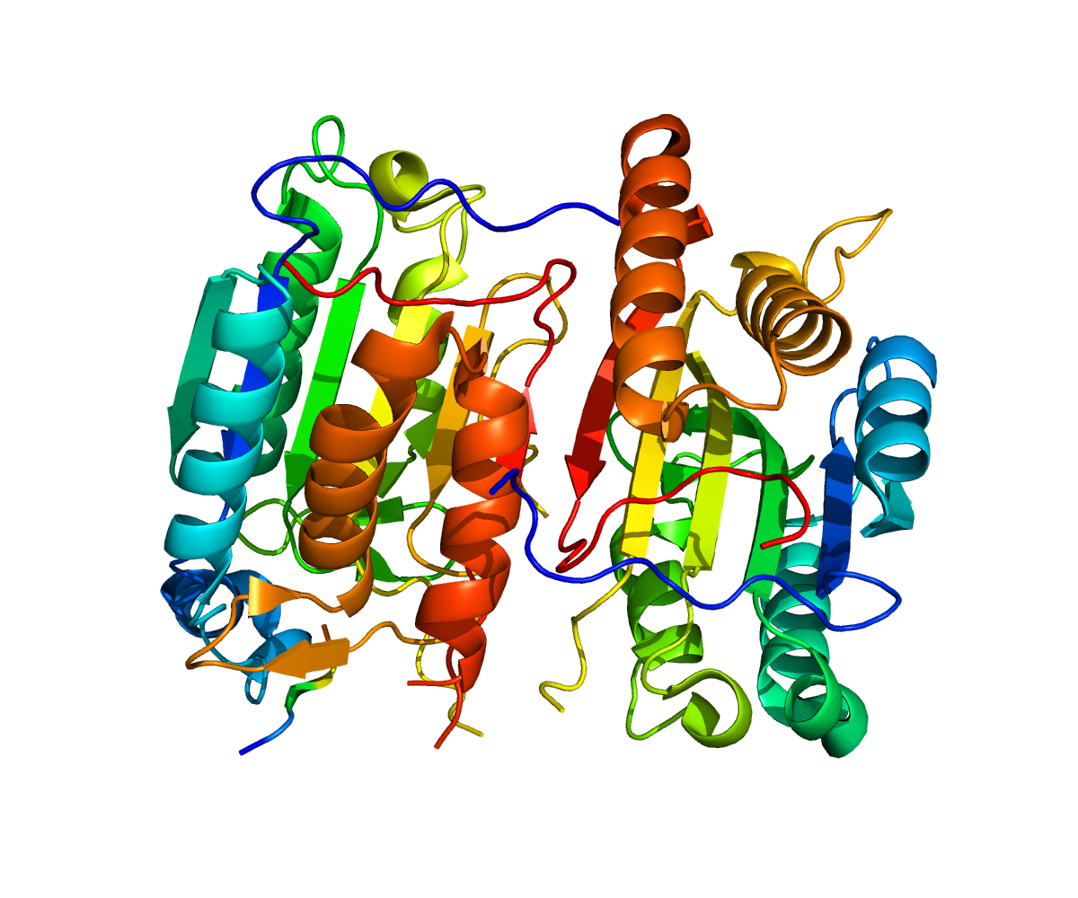 Structure of protein CFLAR.Based on PyMOL rendering of PDB 3H11.